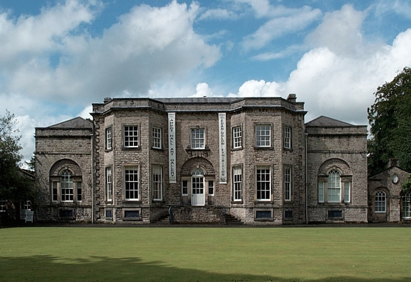 Abbot Hall Art Gallery east façade